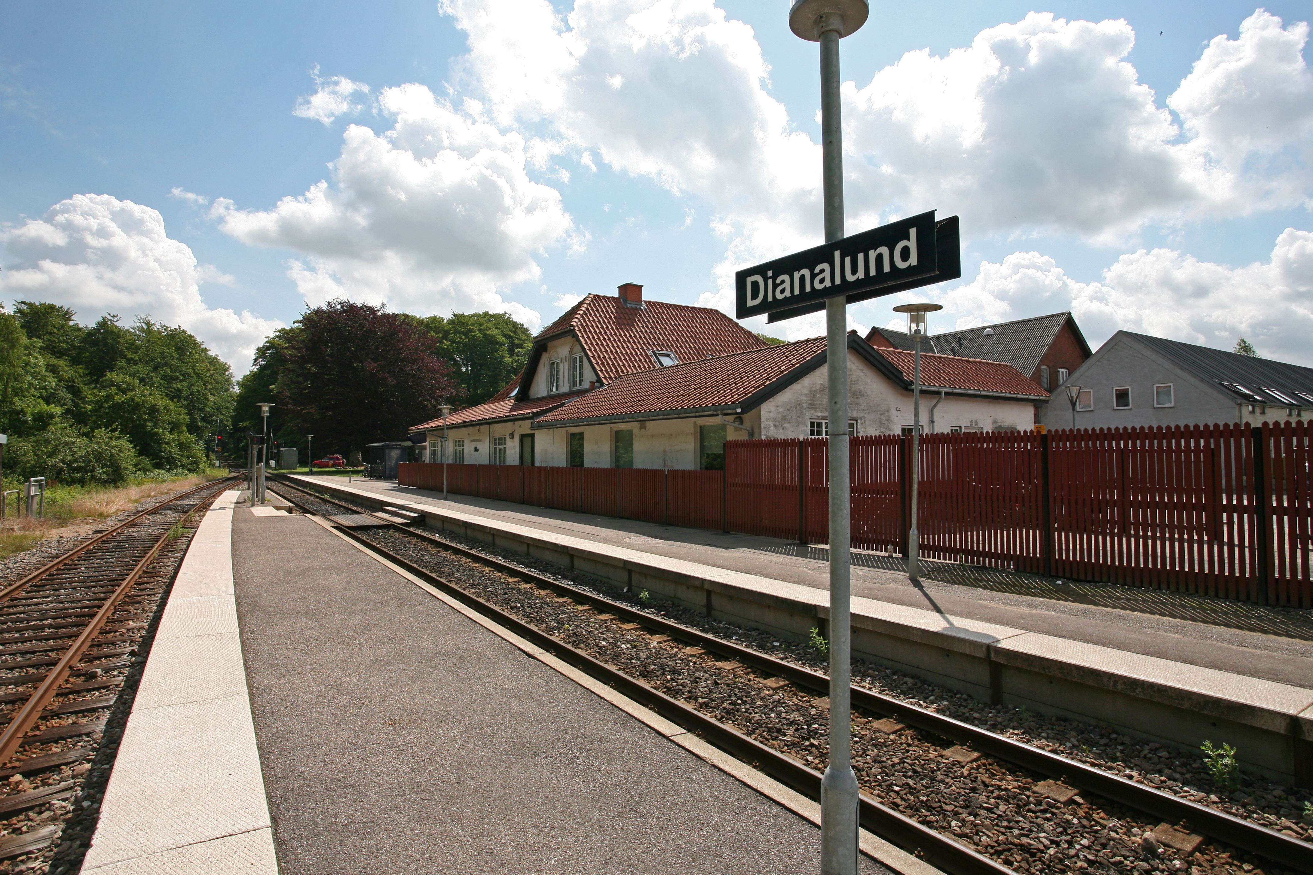 Picture of Dianalund Railway Station (Dianalund - Denmark)